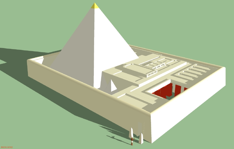 Restoration of the pyramid and temple of Neith at Saqqara - 6th dynasty of Egypt